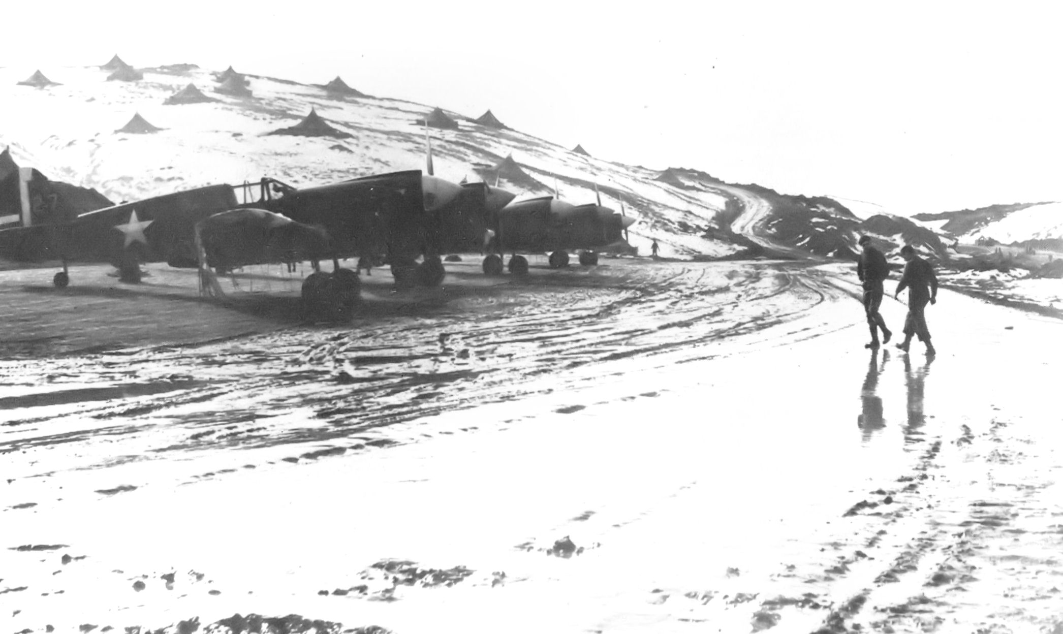 18th Fighter Squadron P-40 Amchatka Alaska Mar 1943. Note the personnel tents on the hill to the north of the aircraft.